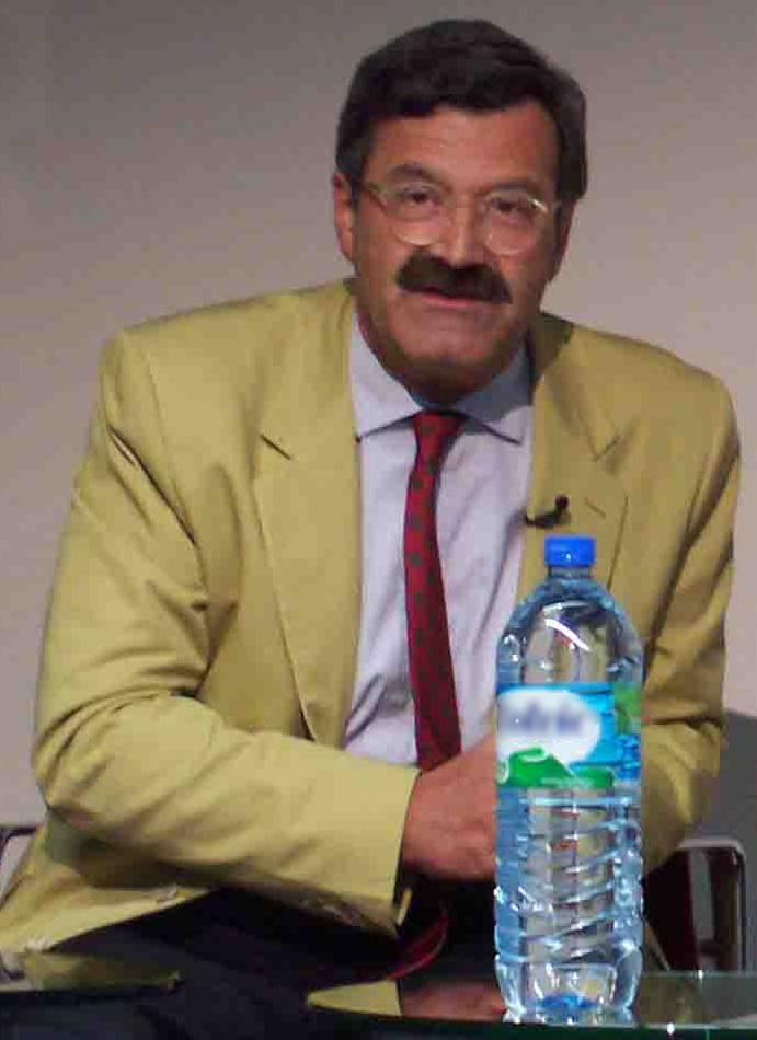 Nikolaus Brender